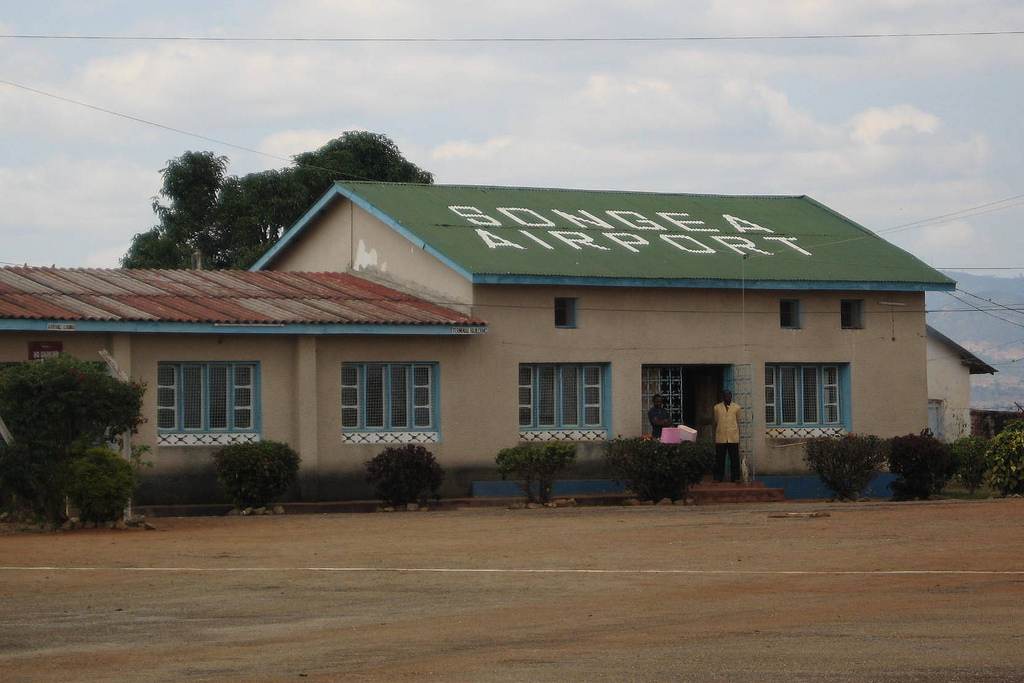 The airport of Songea, Tanzania